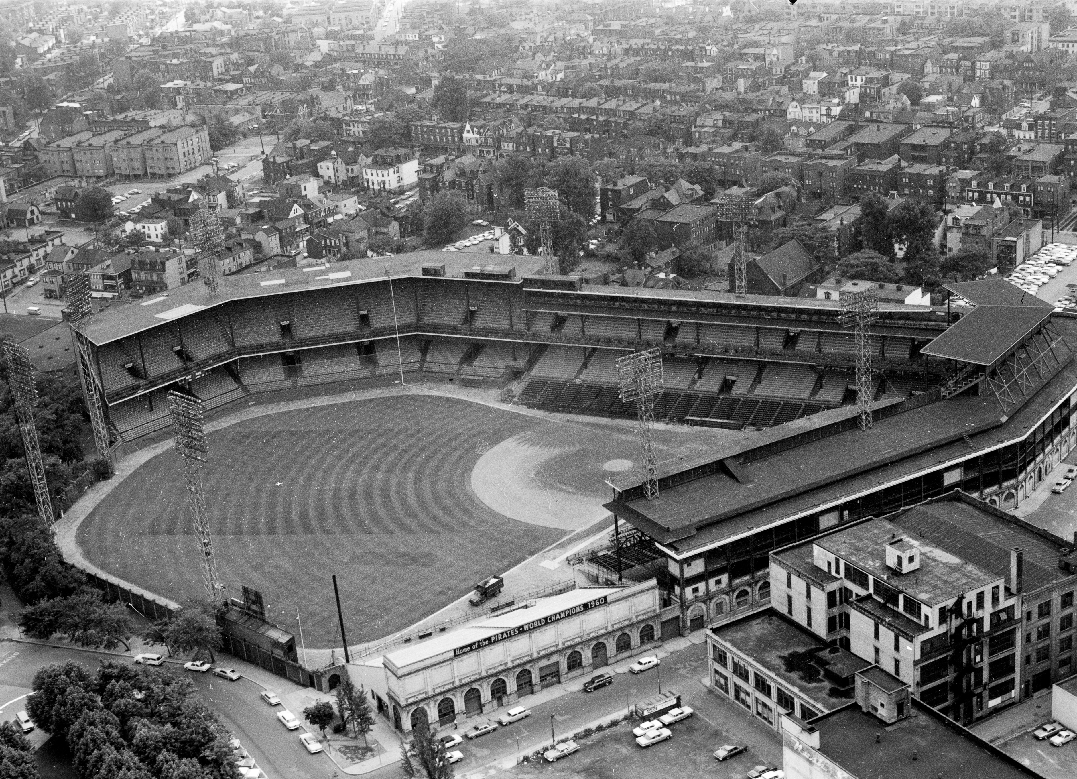 Forbes Field about 1963